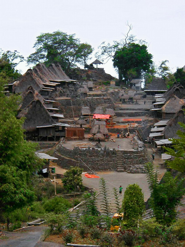 Bena is a traditional village on Flores, an island at the southeast of the Indonesian archipelago. The village is located directly at the foot of a volcano, a few kilometers south of Bajawa town. The roof of houses at Bena displays a unique traditional vernacular architecture native to Indonesia.